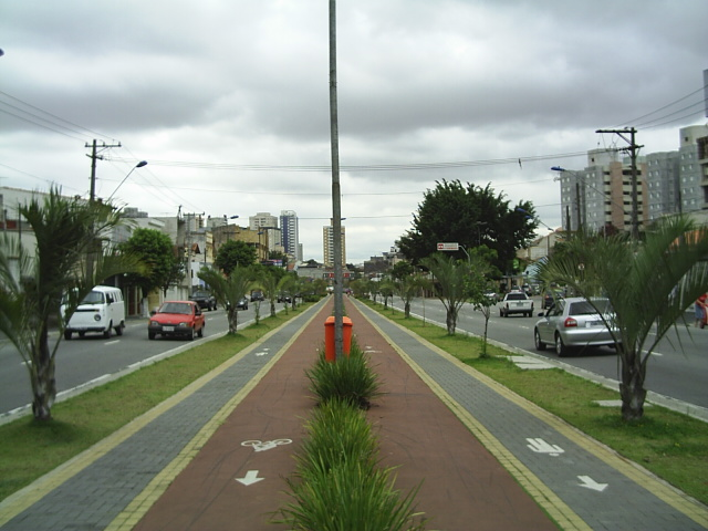 Segregated cycle facilities in São Caetano do Sul.